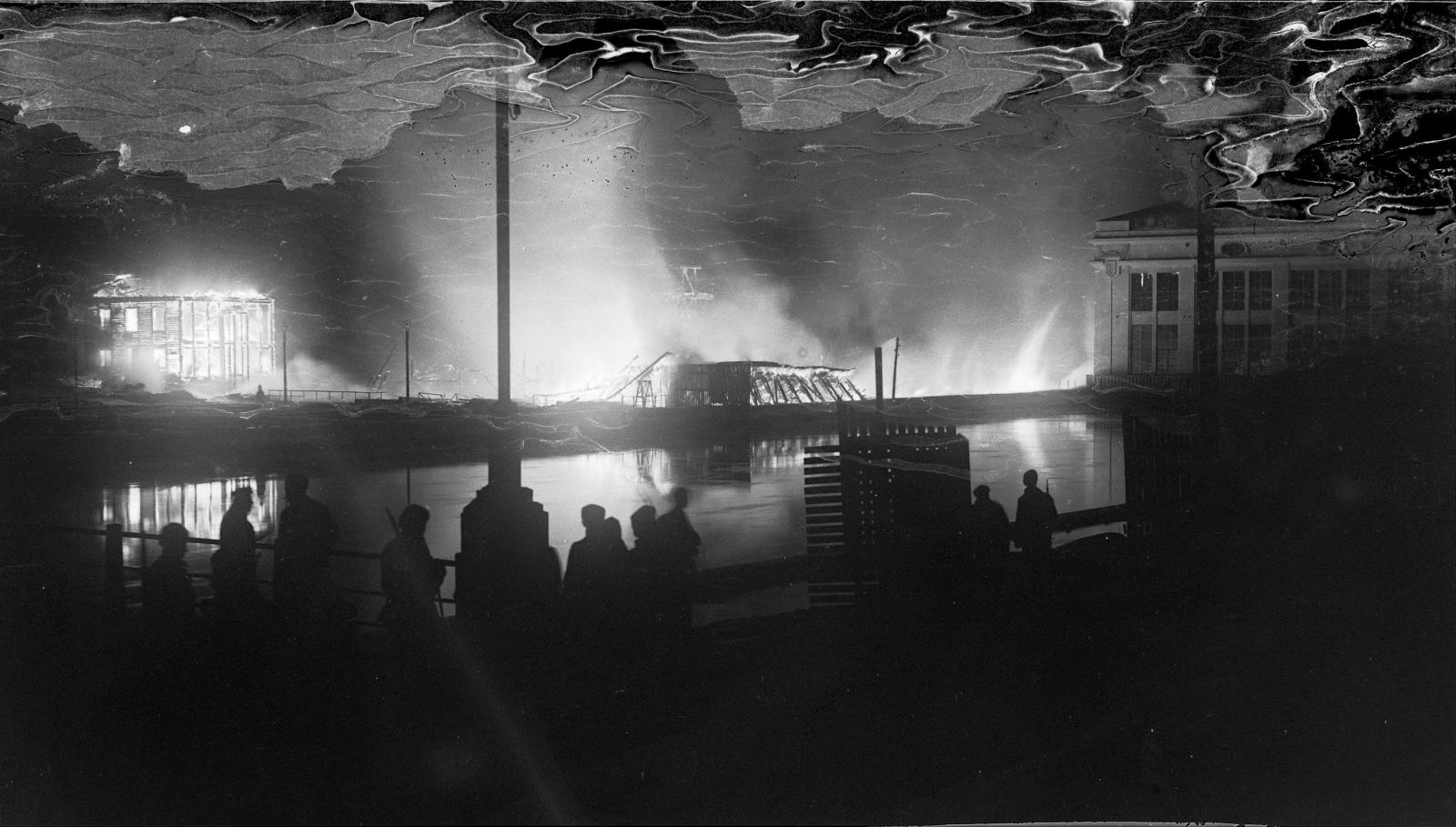 1918 Finnish Civil War: A. Ahlstrom sawmill on fire after the Battle of Varkaus 21 February 1918.